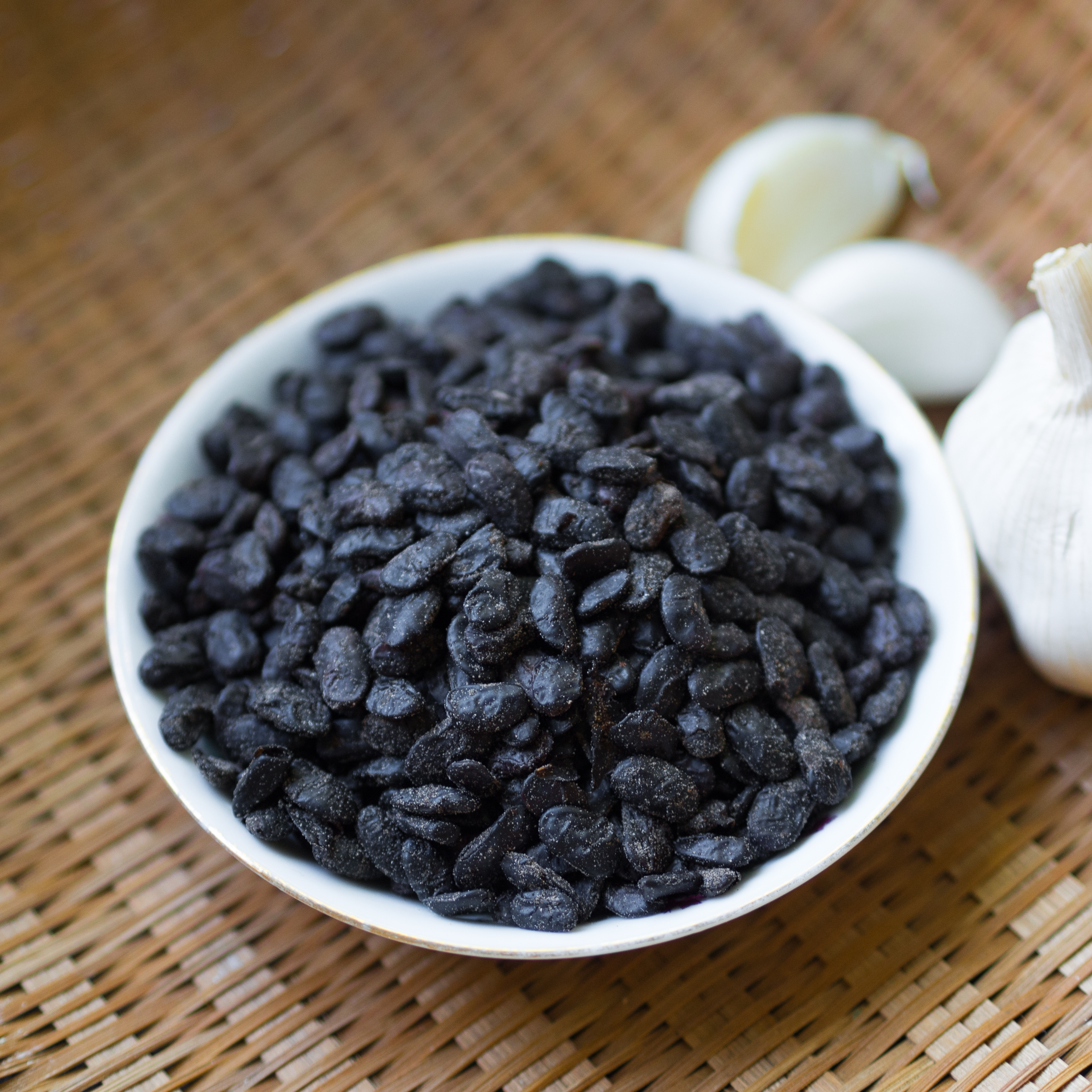 A small saucer of douchi (Chinese: 豆豉) with some garlic for size comparison. The beans came straight out of the packet, showing the grains of salt on them.